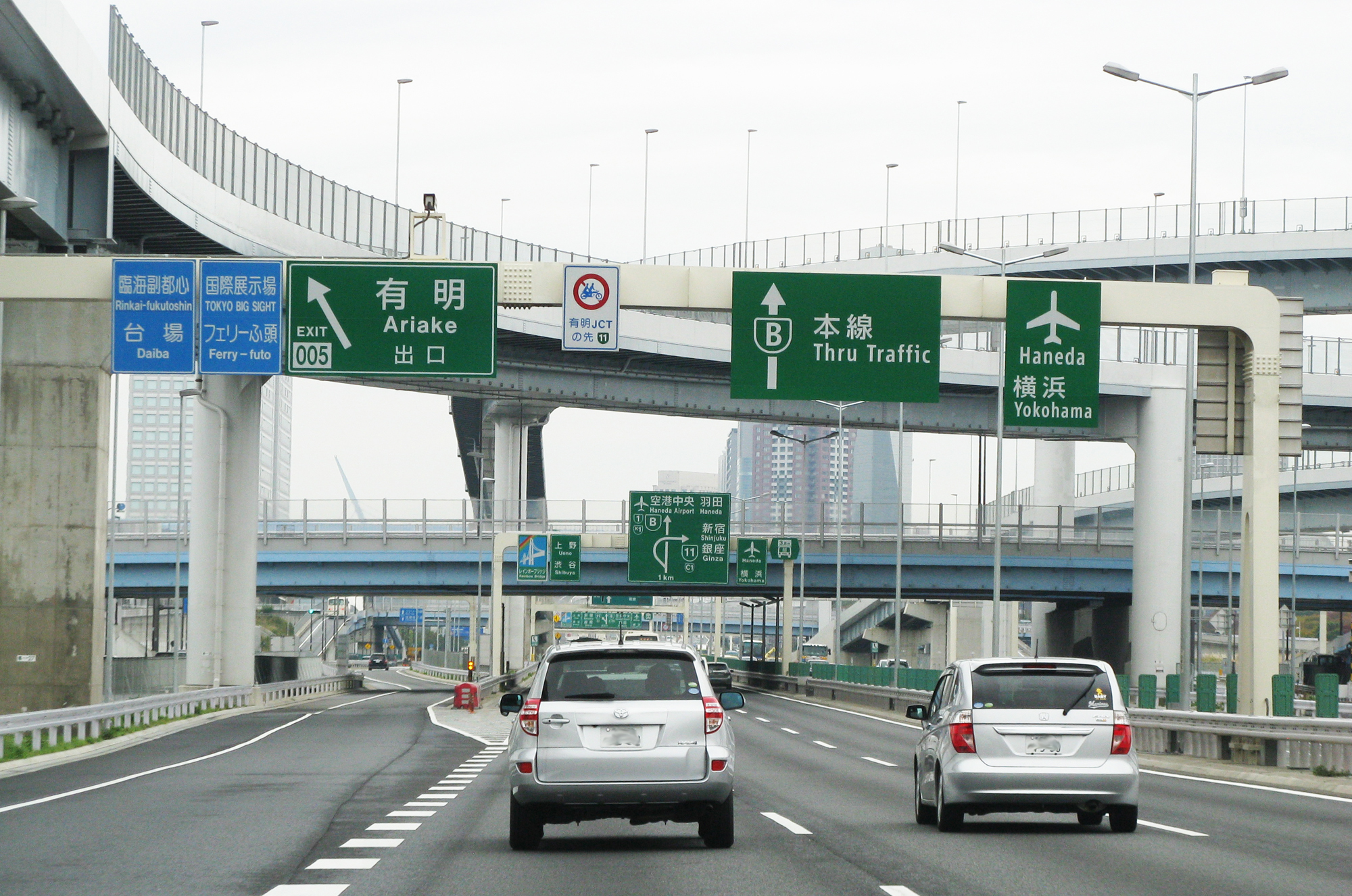 I took this photo.